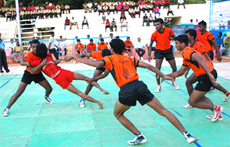 one of the Asian game viz 'kabadi',India